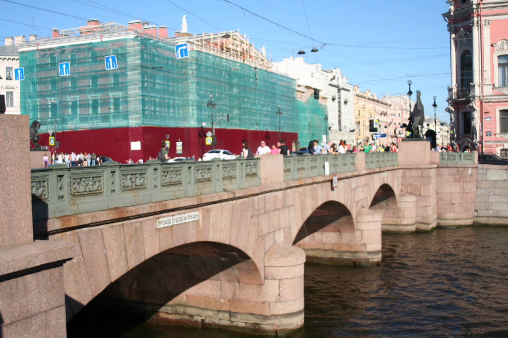 Аничков мост